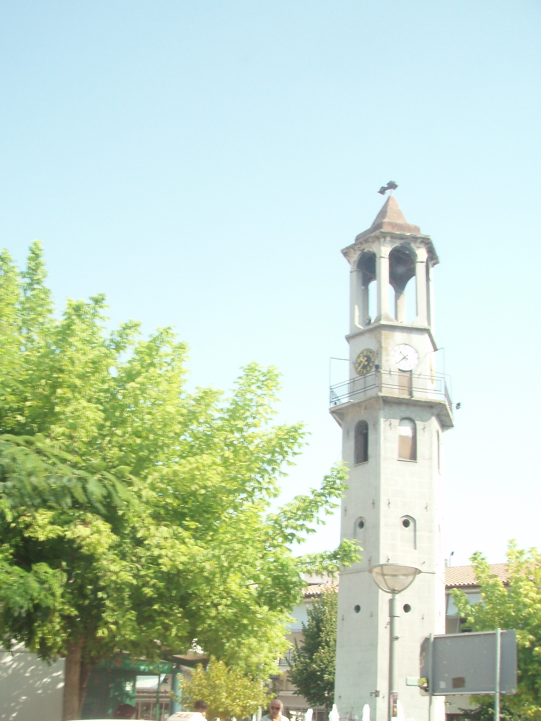 Clock tower in Grevena city, Grevena prefecture, Greece.